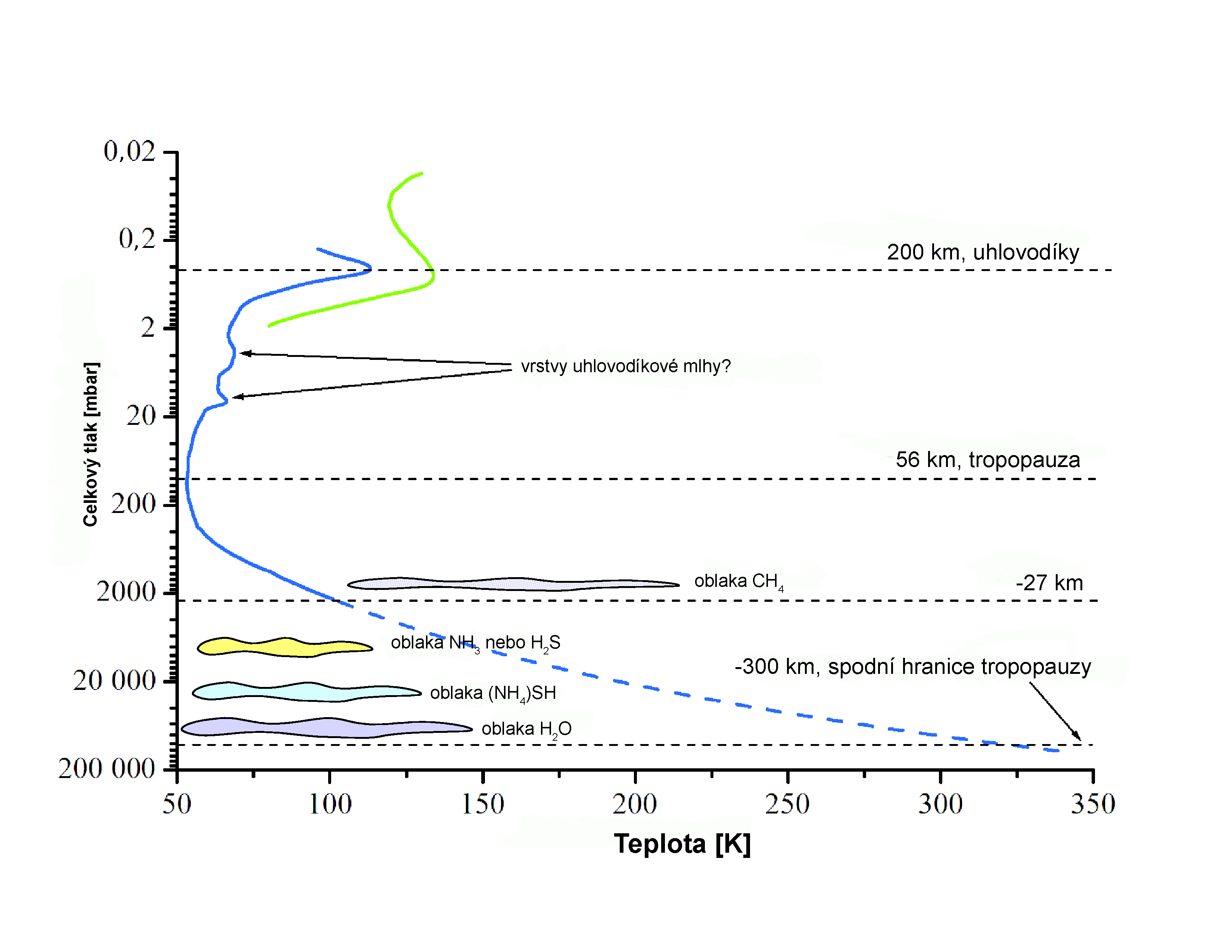 This graph shows temperature profile in the troposphere and in the lower stratosphere of Uranus. Heights are also indicated. The blue curve is from Lindal et al.[1]. The green curve is from Bishop et al.[2] The dashed blue curve is an extrapolation of the 1987 Lindal et al. data[1] using a constant lapse rate of 0.82 K/km. The graph also shows locations of the main cloud and haze layers according to 1990 Bishop et al.[2], Atreya et al.[3] and dePater et al. [4] Česky: pending Reference ↑ a b Lindal, G.F.; Lyons, J.R.; Sweetnam, D.N.; et.al. (1987). "The Atmosphere of Uranus: Results of Radio Occultation Measurements with Voyager 2". J. Of Geophys. Res. 92: 14,987–15,001. ↑ a b Bishop, J.; Atreya, S.K.; Herbert, F.; and Romani, P. (1990). "Reanalysis of Voyager 2 UVS Occultations at Uranus: Hydrocarbon Mixing Ratios in the Equatorial Stratosphere" (PDF). Icarus 88: 448–463. ↑ Atreya, S.; Egeler, P.; Baines, K. (2006). "Water-ammonia ionic ocean on Uranus and Neptune?" (pdf). Geophysical Research Abstracts 8: 05179. ↑ dePater, Imke; Romani, Paul N.; Atreya, Sushil K. (1991). "Possible Microwave Absorption in by H2S gas Uranus’ and Neptune’s Atmospheres" (PDF). Icarus 91: 220–233.